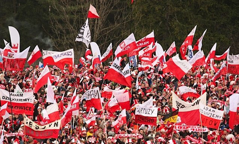 Polish fans during Adam's Bull's Eye on 26 March 2011 in Zakopane.